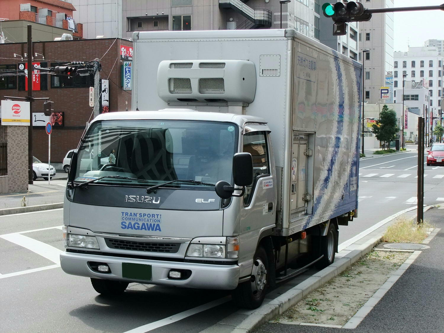 ISUZU ELF, 5th Generation vehicle, （It is called N-series or REWARD excluding a Japanese market.）